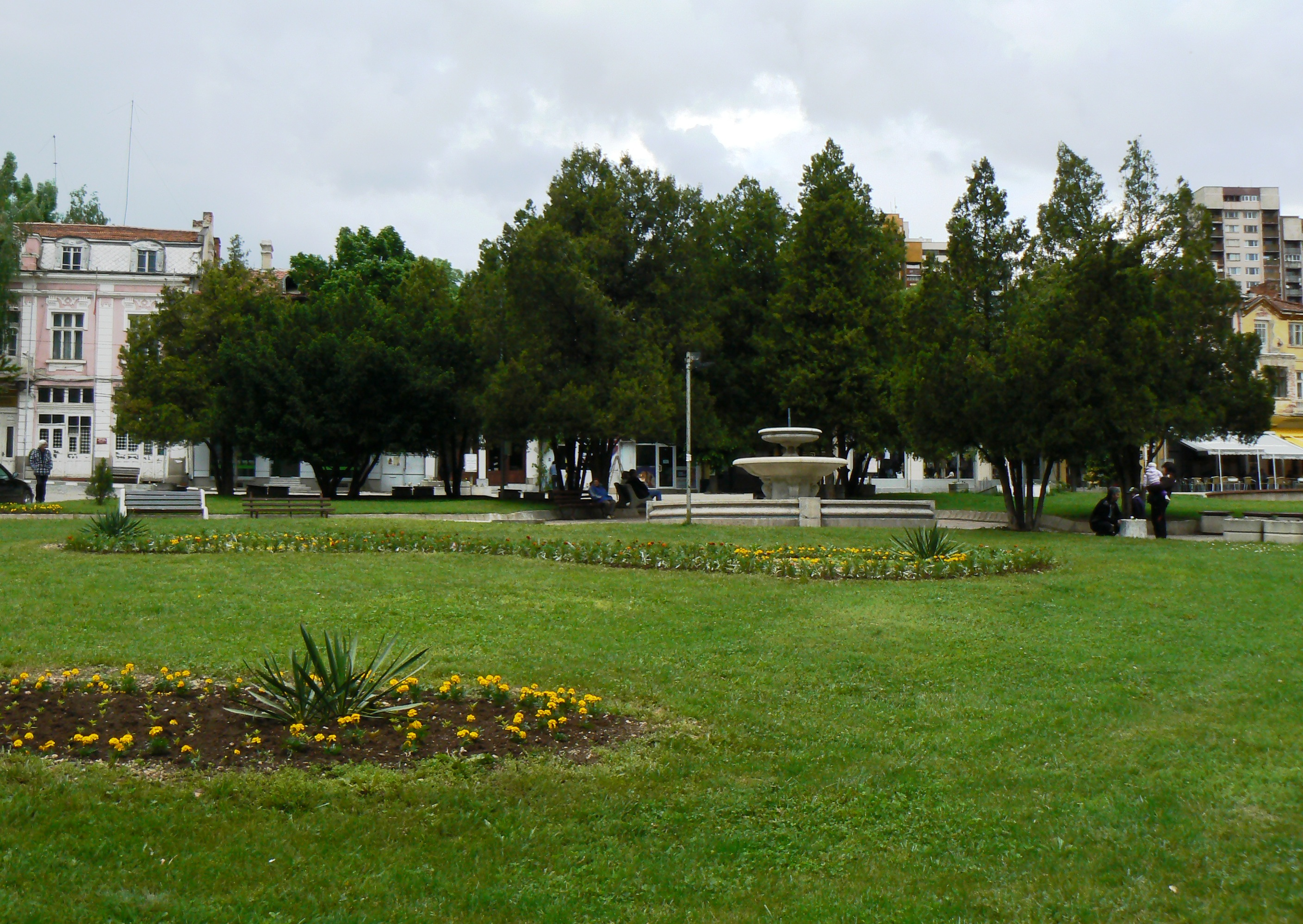 The centre of Bulgarian town Radomir